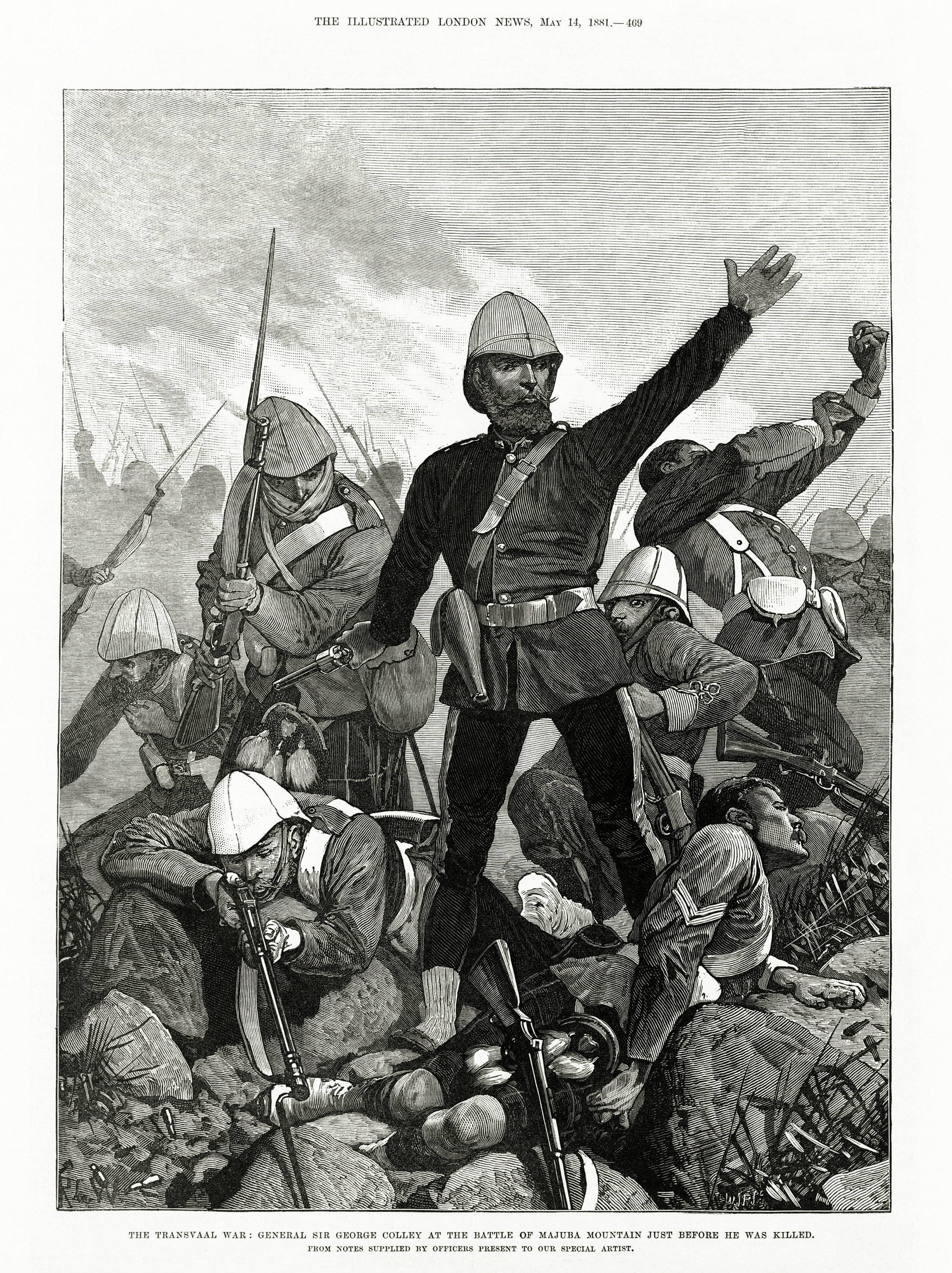 The Transvaal War: General Sir George Colley at the Battle of Majuba Mountain Just Before He Was Killed. See File:Melton Prior - Illustrated London News - The Transvaal War - General Sir George Colley at the Battle of Majuba Mountain Just Before He Was Killed original.jpg for attached article.